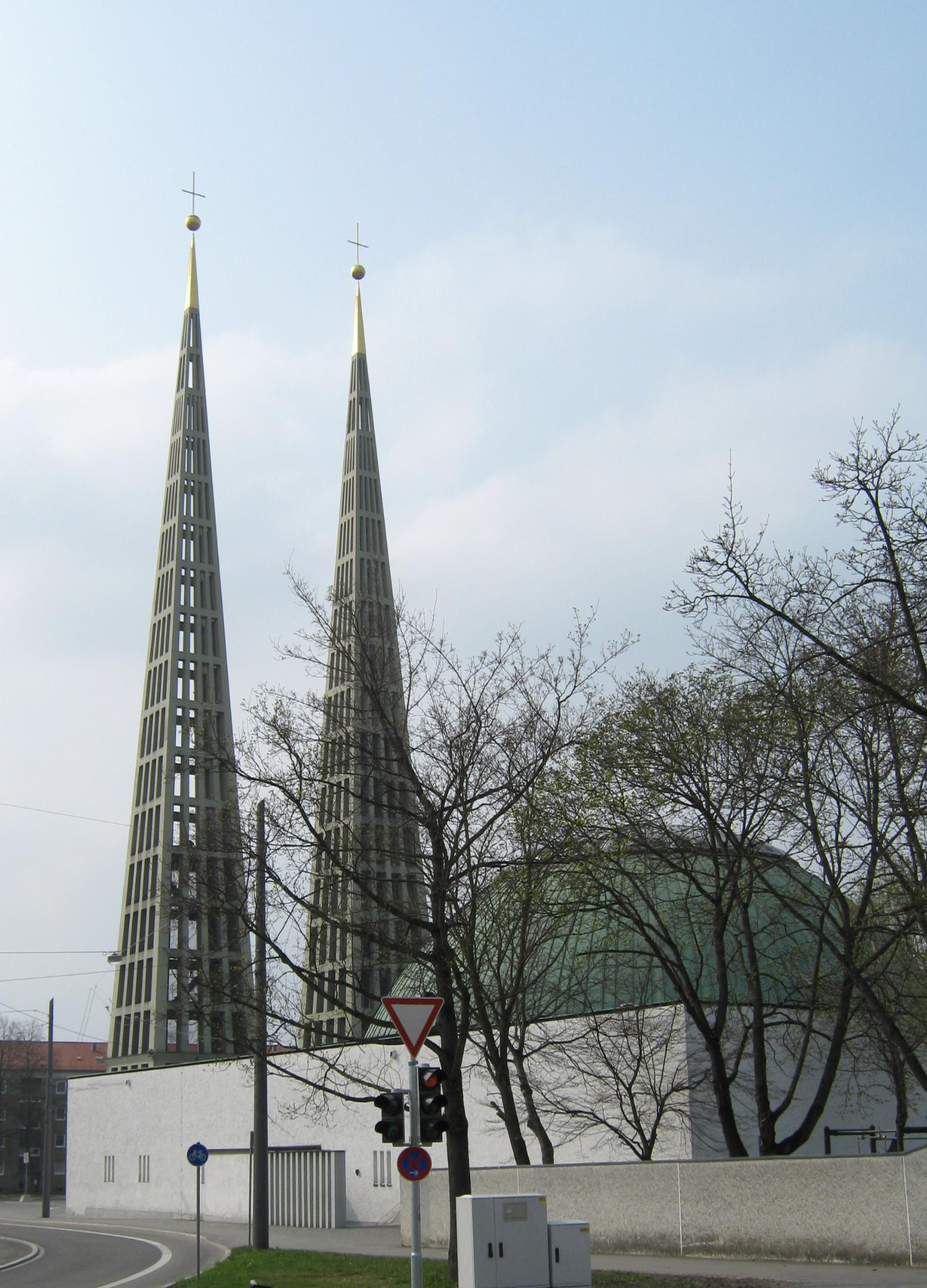 Don Bosco Church in Augsburg, Germany, viewed from Southeast, designed by Thomas Wechs